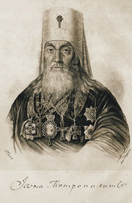 Iona (Vasilevski), exarch of Georgia